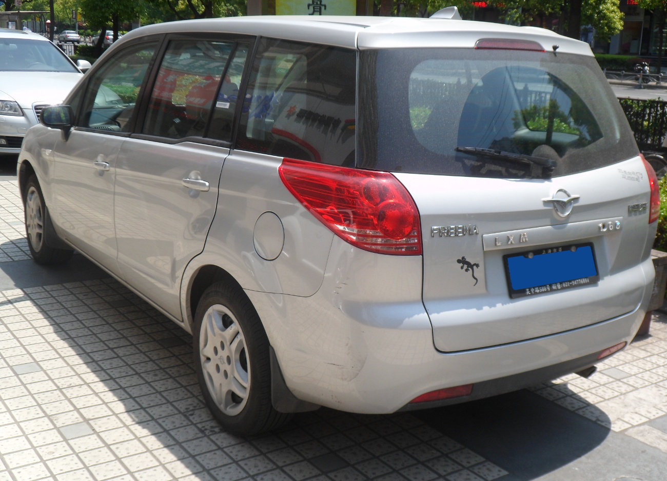 Haima Freema II photographed in Shanghai, China.